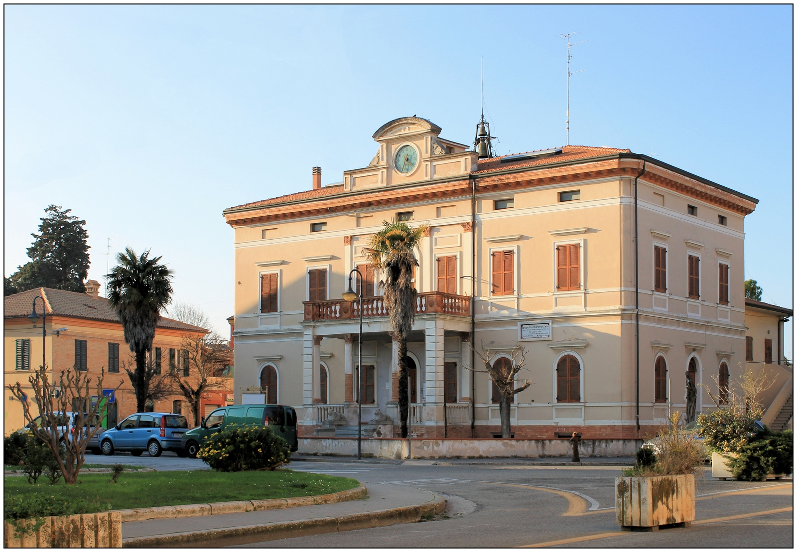 View of the Public Library of Chiaravalle